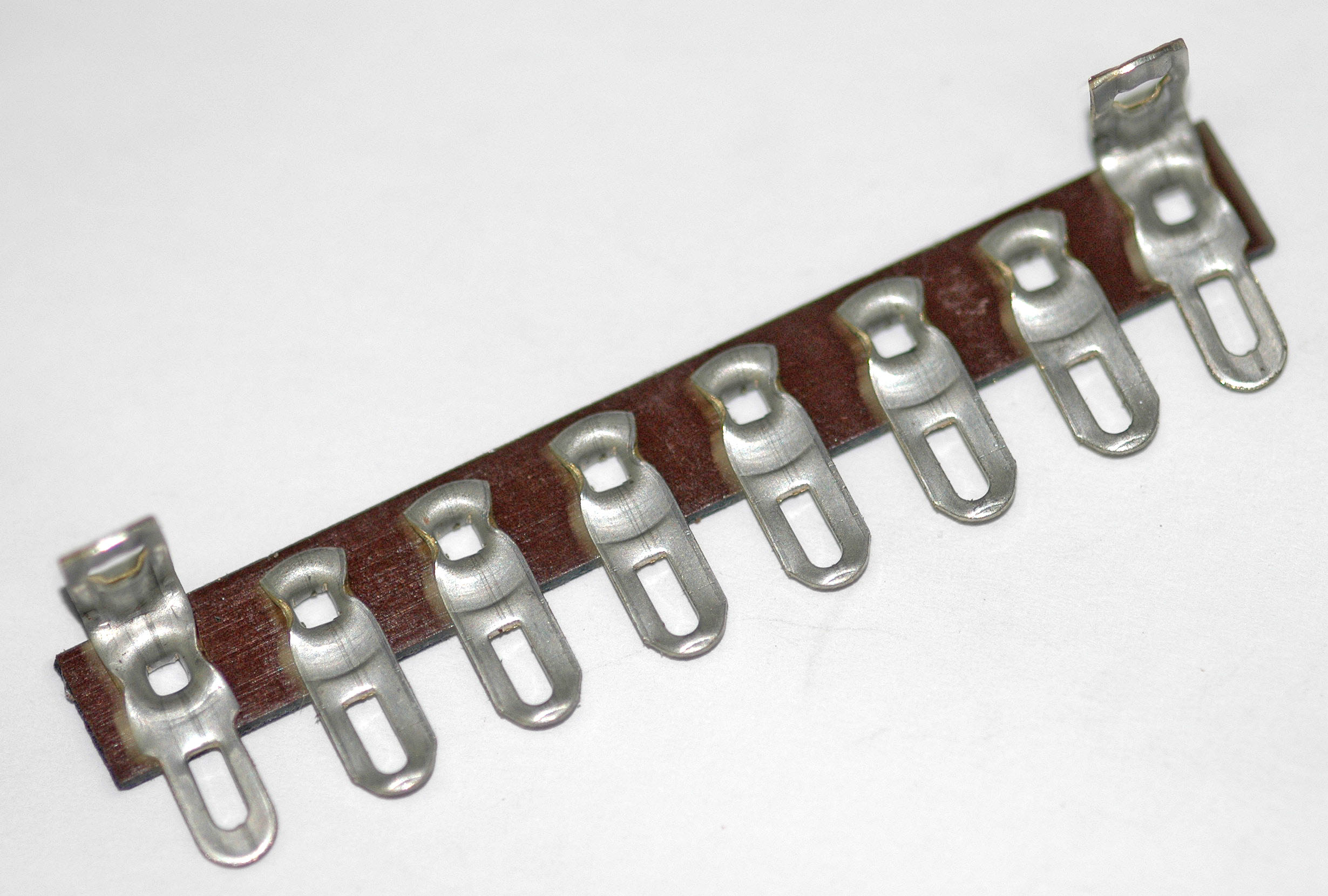 Vintage style electronic component terminal strip. Often found in antique radios and vintage tube equipment.